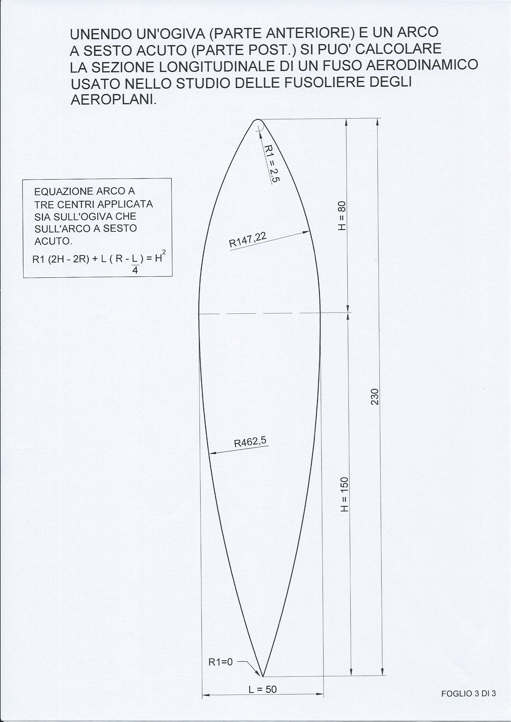 calcolo del fuso